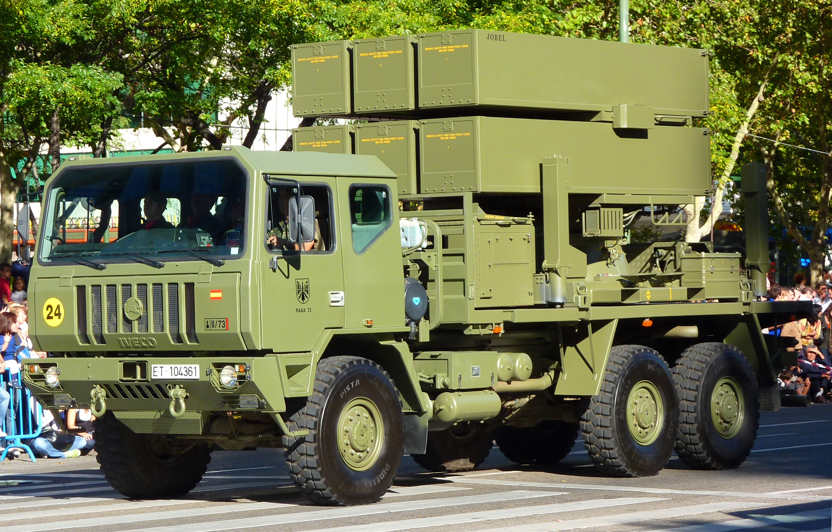 Spanish Army NASAMS II (launcher vehicle).